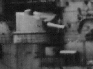 Photograph showing 17-cm guns mounted in a turret (upper) and casemate (lower) on starboard side of German battleship SMS Hessen.